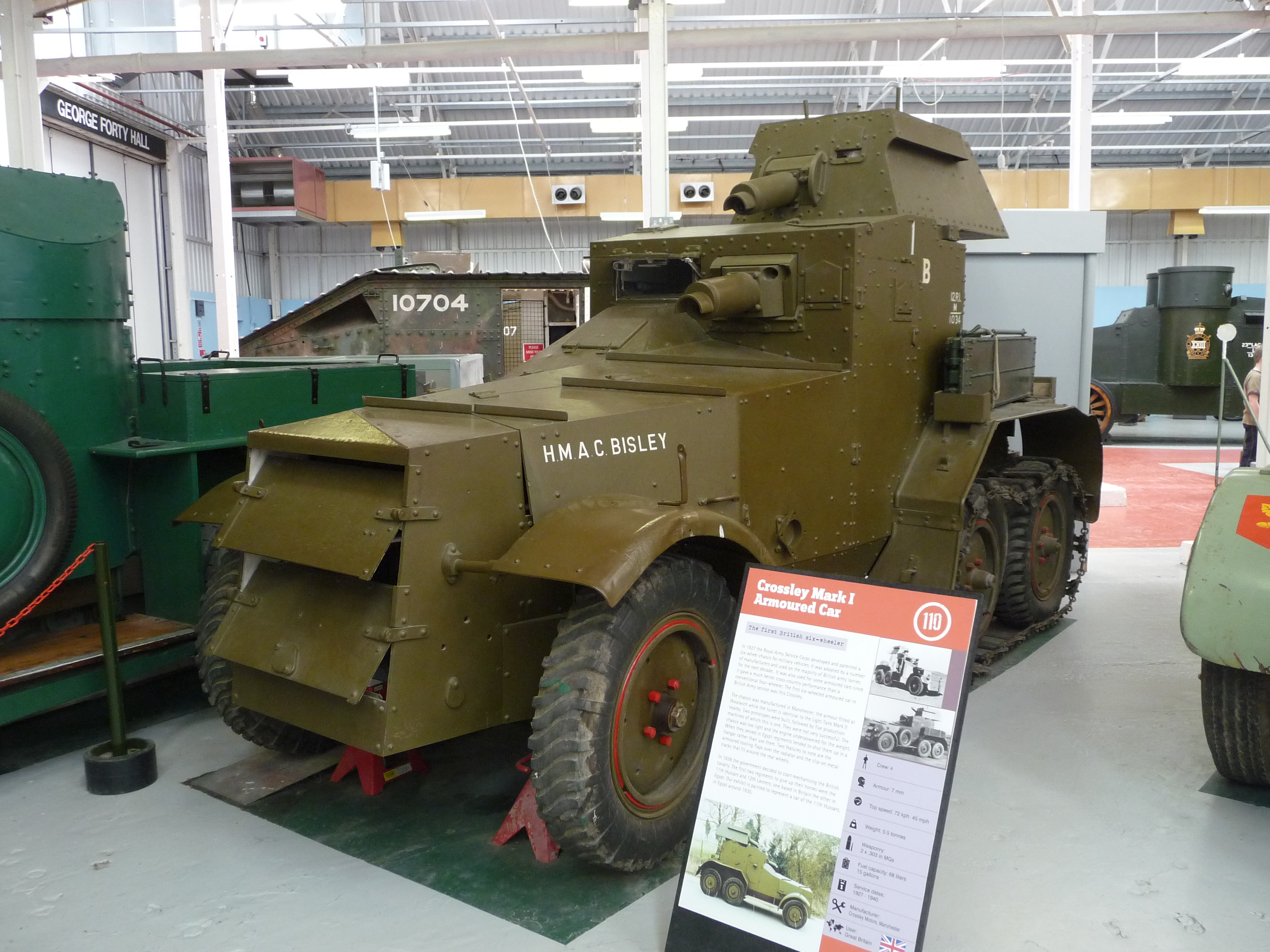 Armoured Car Crossley Mark I